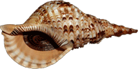 Photo of an apertural view of a shell of Charonia tritonis.